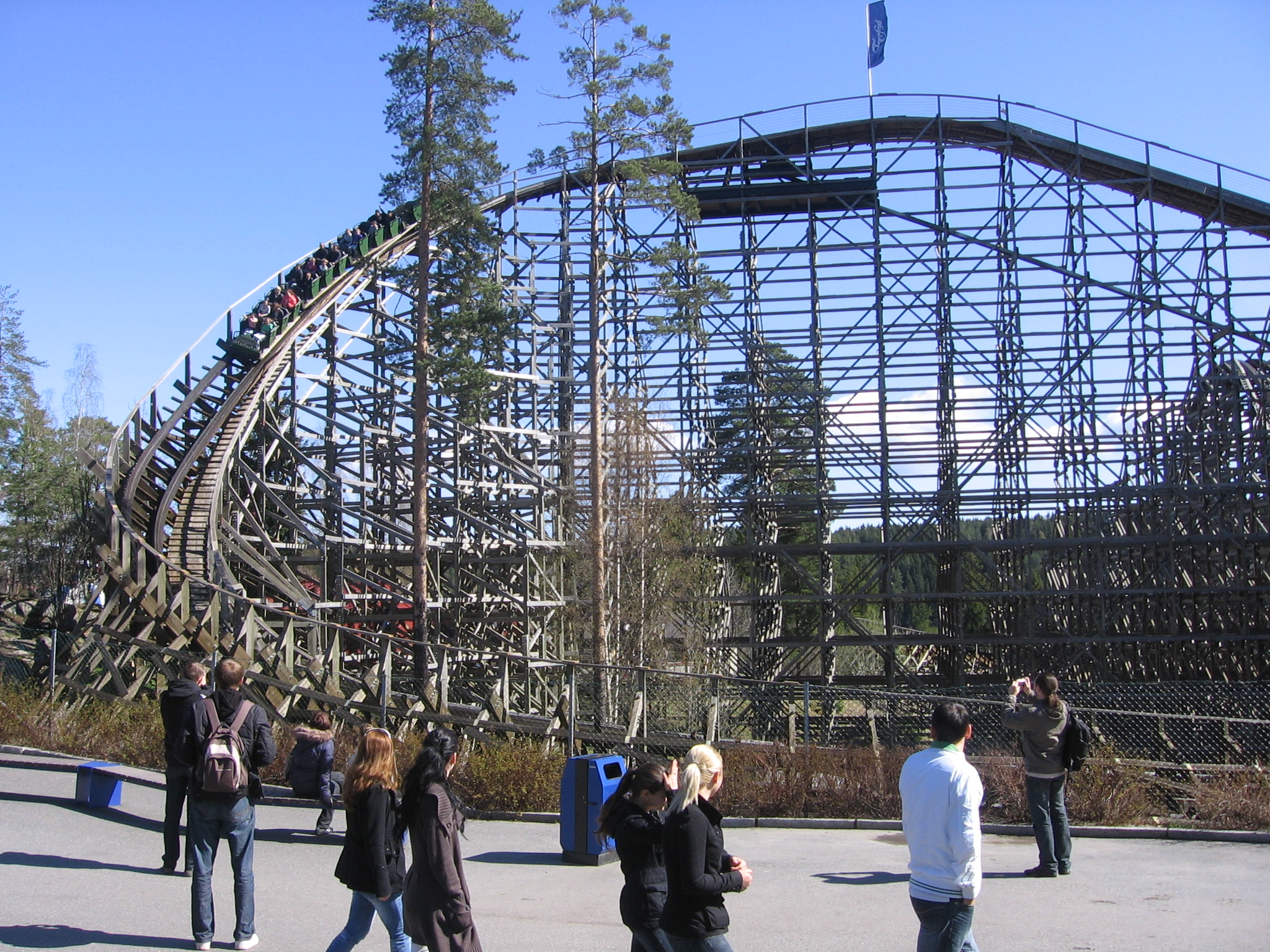 Thundercoaster in TusenFryt.